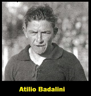 Atilio Badalini (1899 - 1953). Fundador del Club Atlético Colón